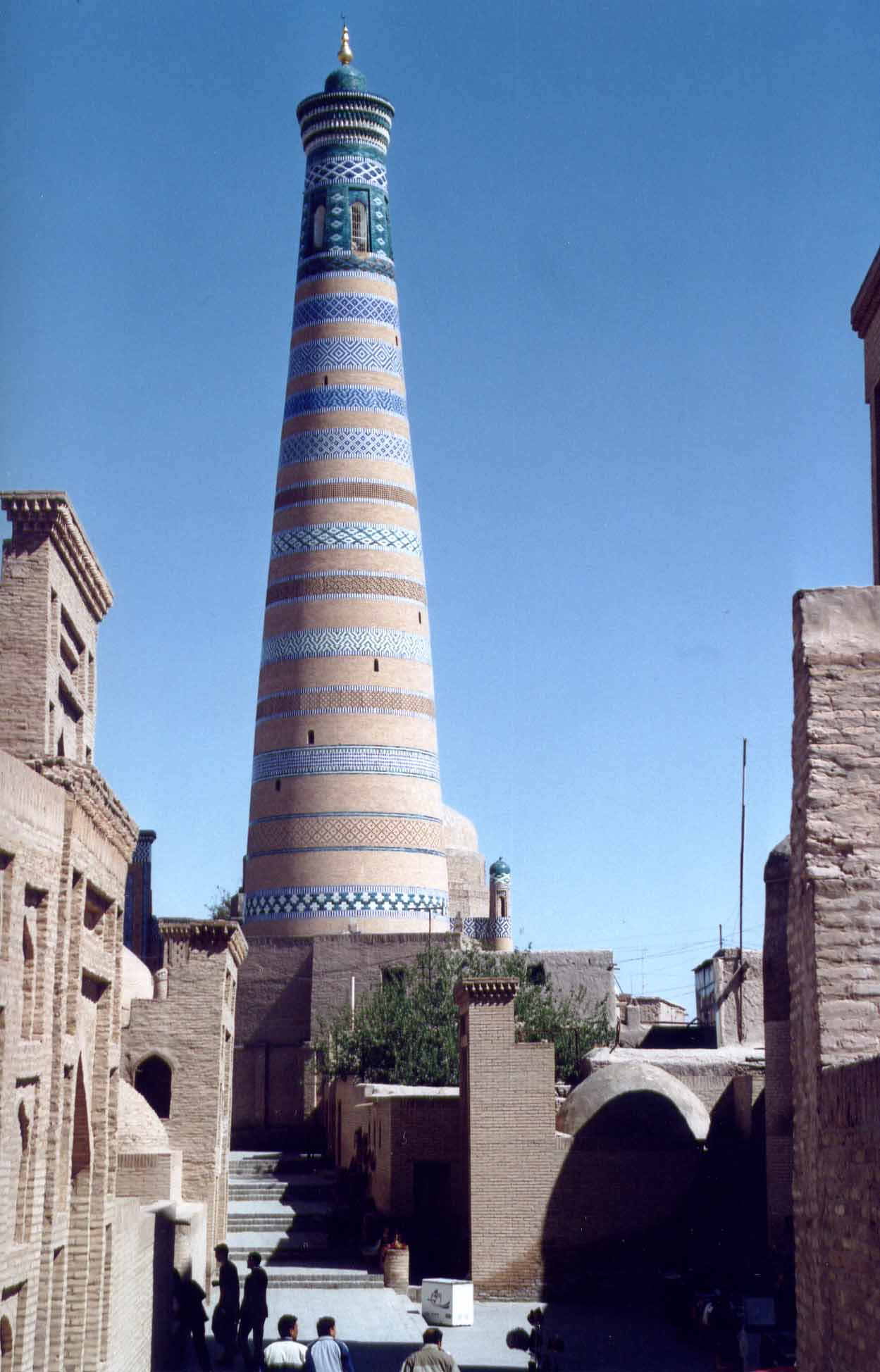 Khiva (Uzbekistan) : Islam Khodja Minaret